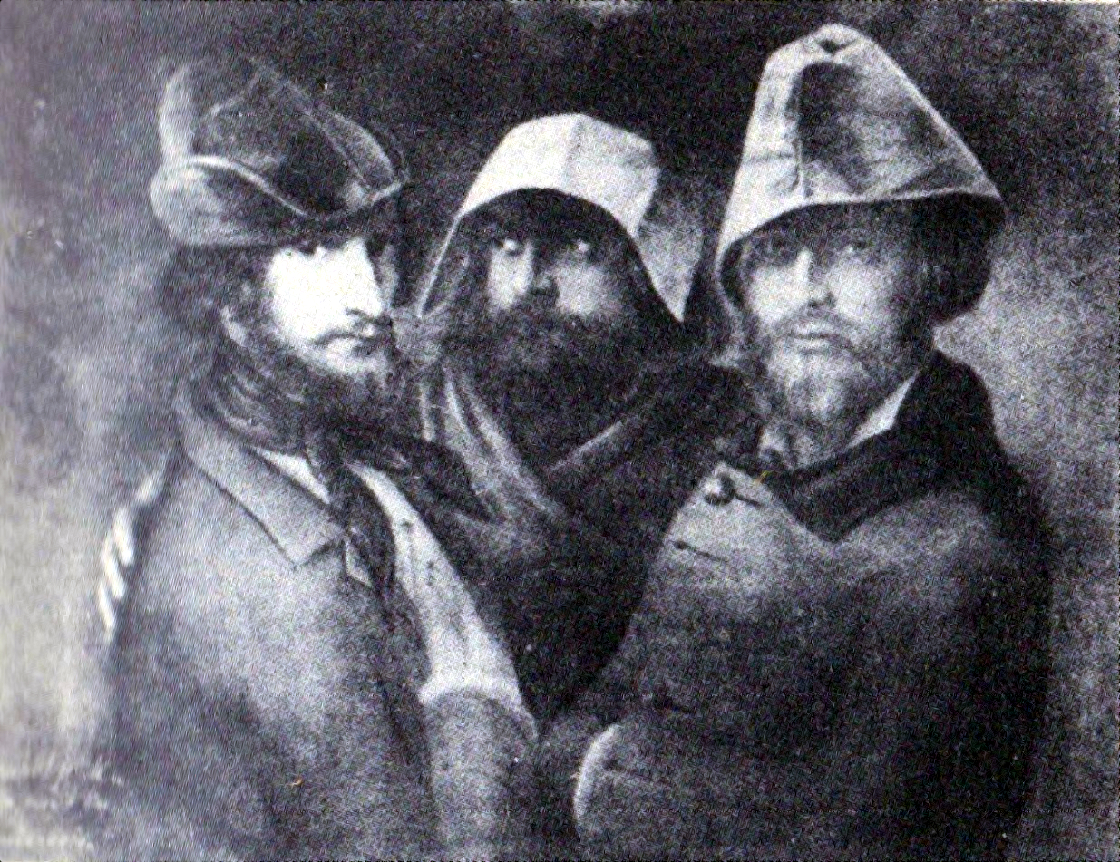 Group portrait of (from left to right) Constantin Daniel Rosenthal, C. A. Rosetti and an unknown Wallachian revolutionary; lithograph copy of a work by Rosenthal